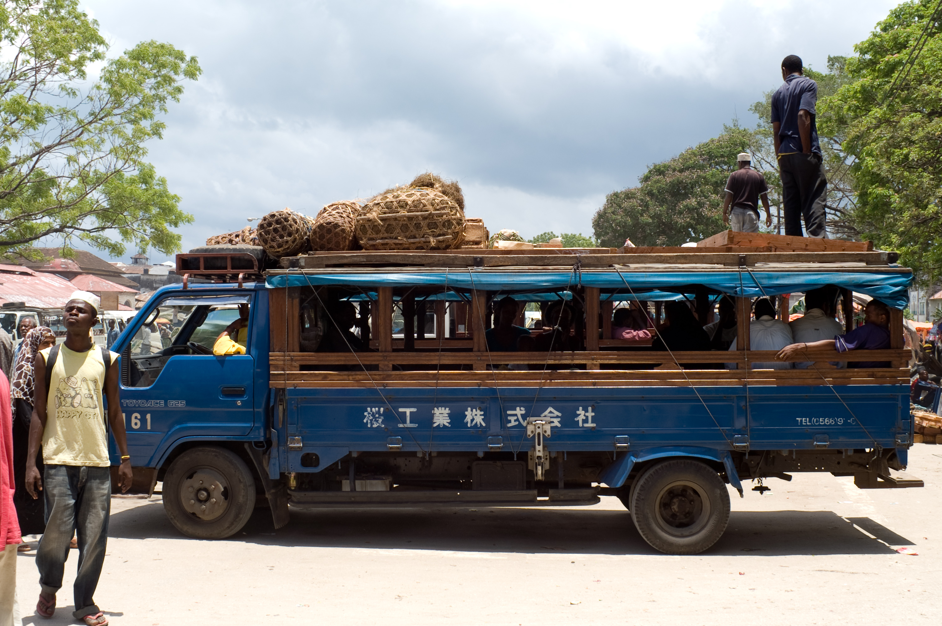 Stone Town bus station, Zanzibar.